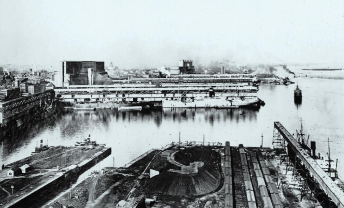 Photograph, glass lantern slide Harbour, grain elevators and Lachine Canal entrance, Montreal, QC, about 1930, Sydney Jack Hayward, Silver salts on glass - Gelatin dry plate process - 8 x 10 cm